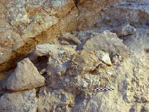 In the center, in a slightly more yellow brown tone, is the crushed top of the skull Irhoud 10, and visible just above this is a partial femur (Irhoud 13) resting against the back wall. Scale in centimeters